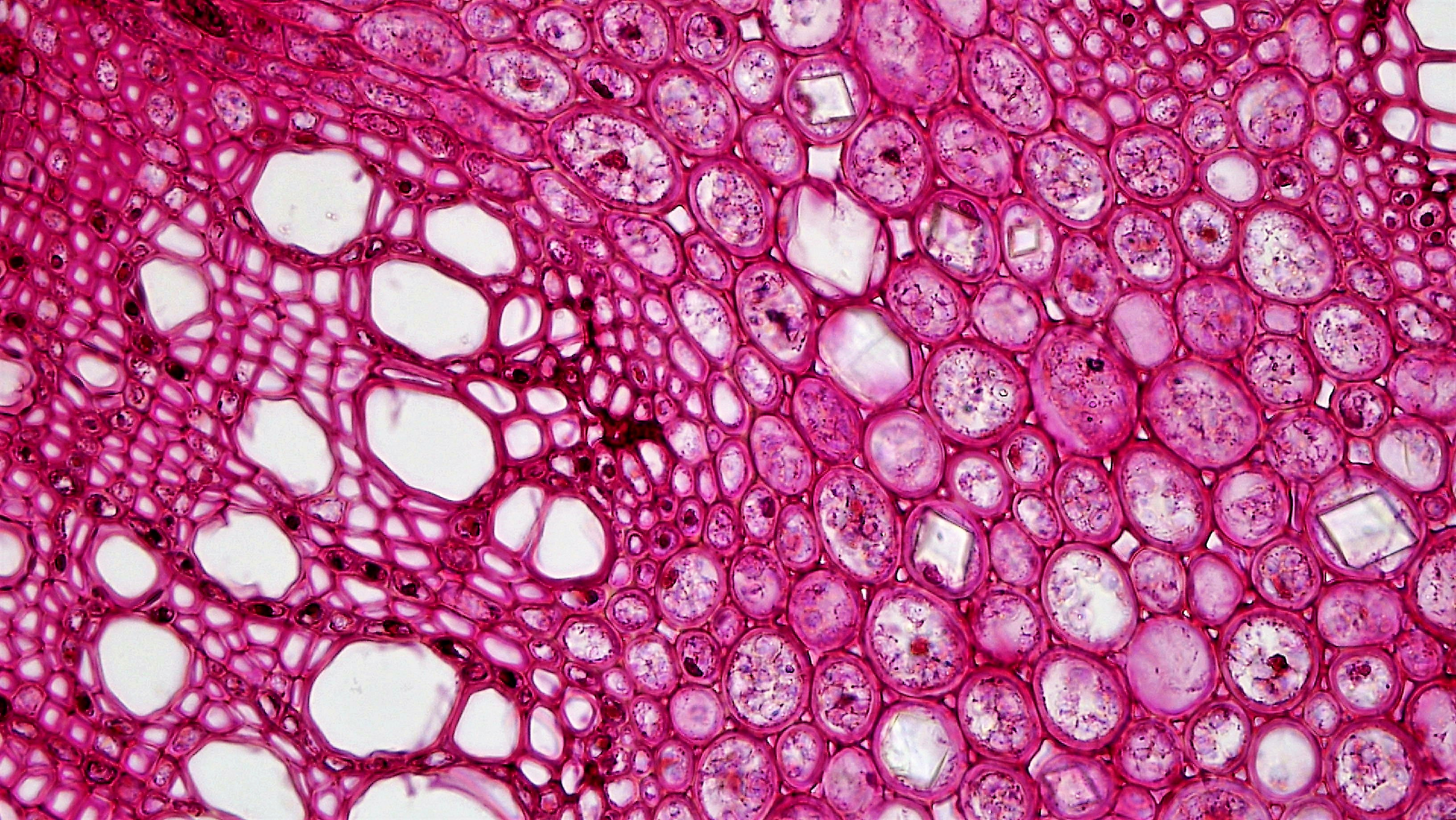 cross section: One year Quercus stem magnification: 400x iron-alum hematoxylin and safranin stain Bulging into the pith are the cells of the first xylem; the small thin walled protoxylem, and above them the larger, heavier walled cells of the metaxylem. Idioblasts containing rhombohedral crystals of calcium oxalate are occasionally found in among the starch containing cells of the pith